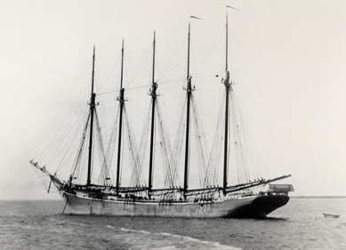 The coal schooner Louise B. Crary. She was shipwrecked in a collision with the Frank A. Palmer, another coal schooner, in what is now the Stellwagen Bank National Marine Sanctuary off Gloucester, Massachusetts.